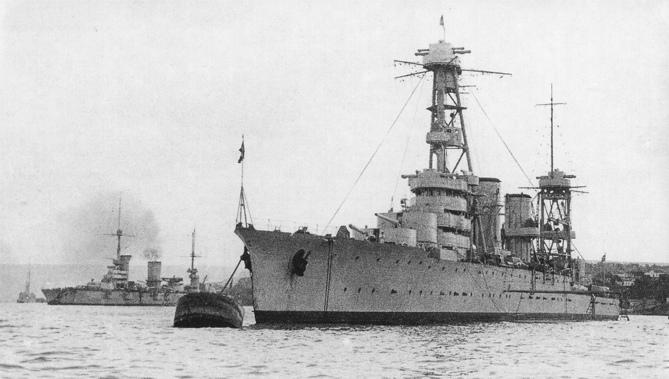 The Soviet cruiser Krasnyi Kavkaz and battleship Parizhskaya Kommuna', 1930s.